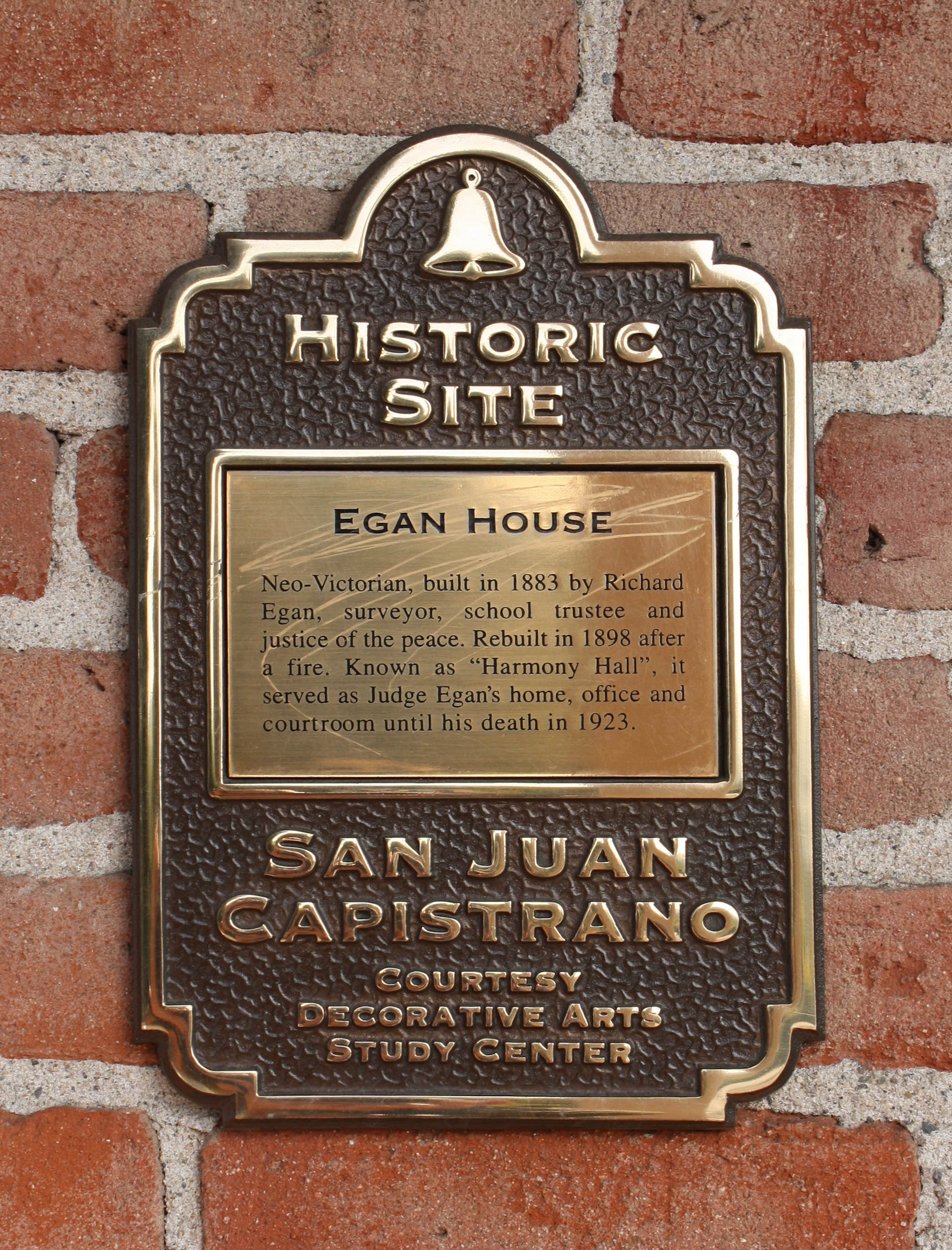 Plaque of the Judge Richard Egan House, San Juan Capistrano, California